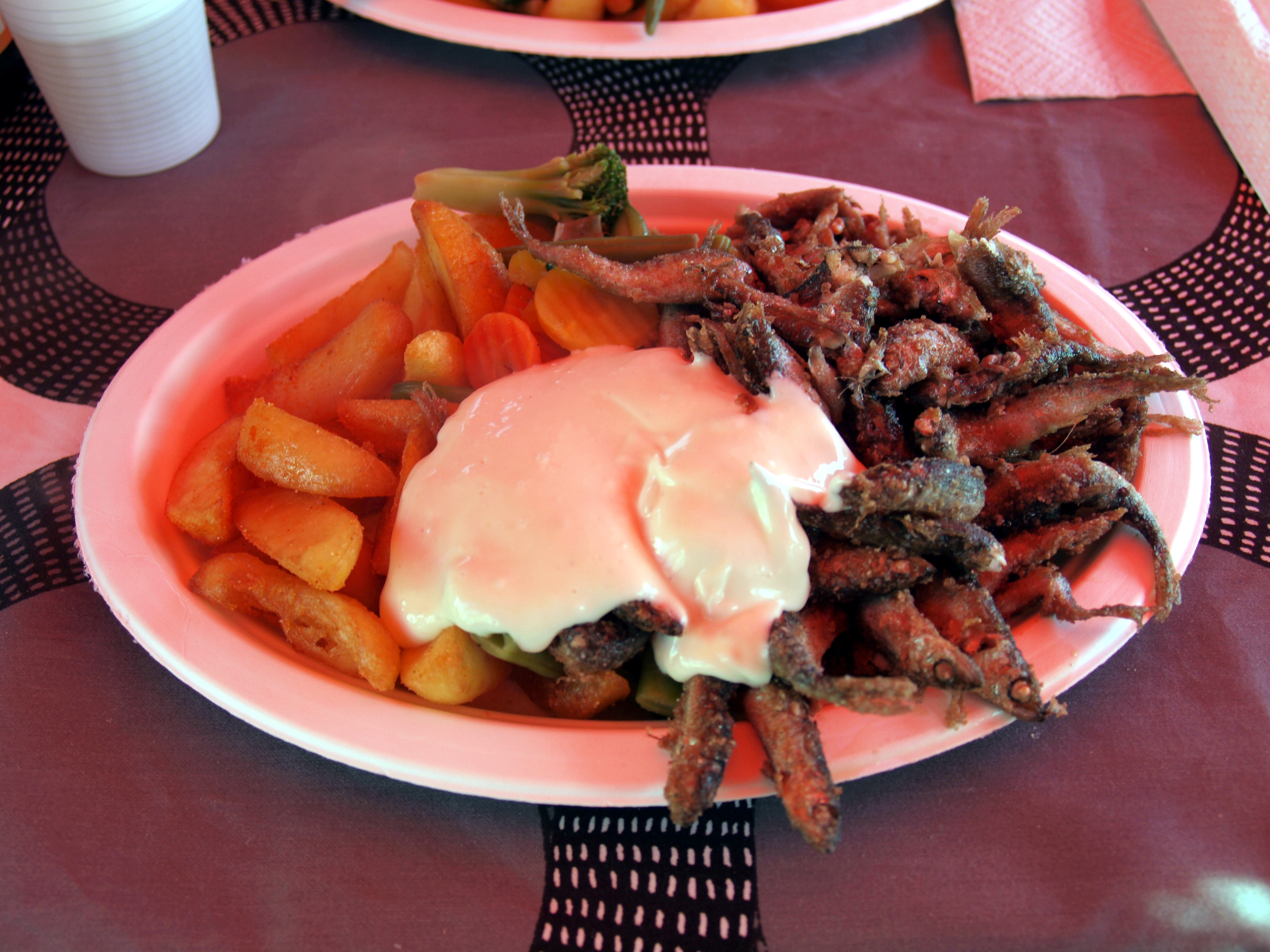 Fried vendaces (Coregonus albula) served with potatoes, vegetables and garlic sauce, in Helsinki, Finland.